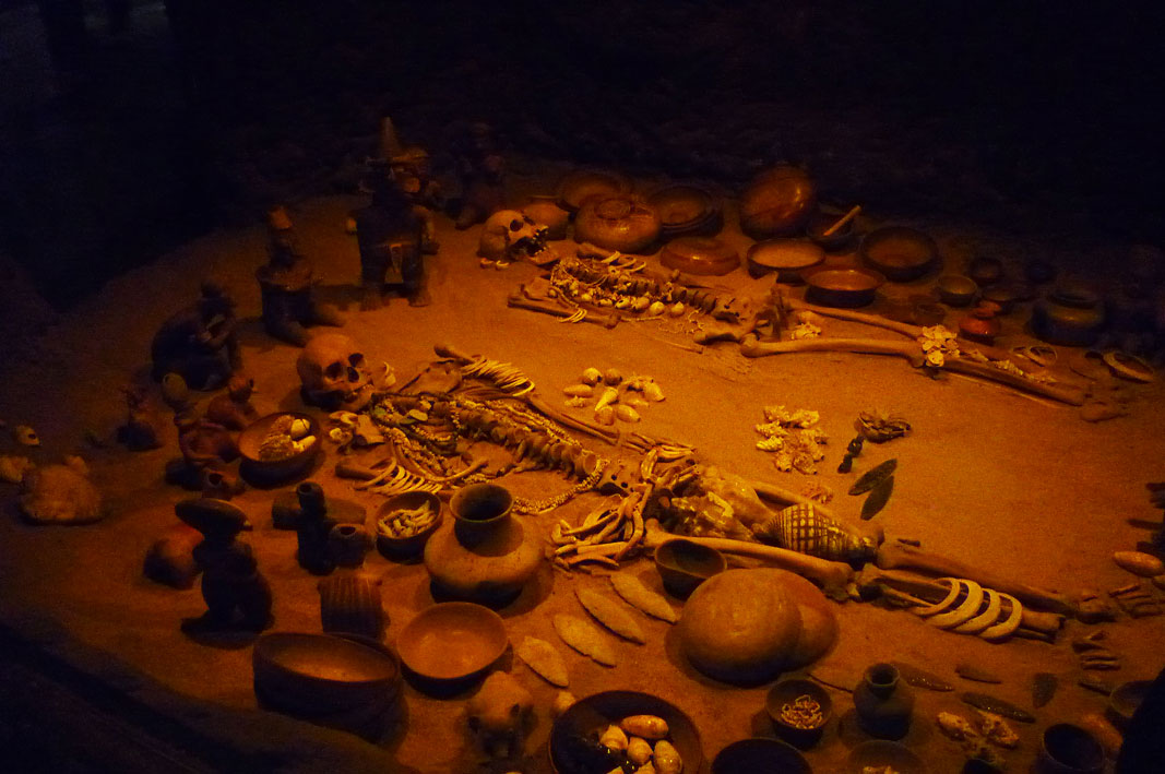 Shaft tomb exhibited at the Museo Nacional de Antropología e Historia, México